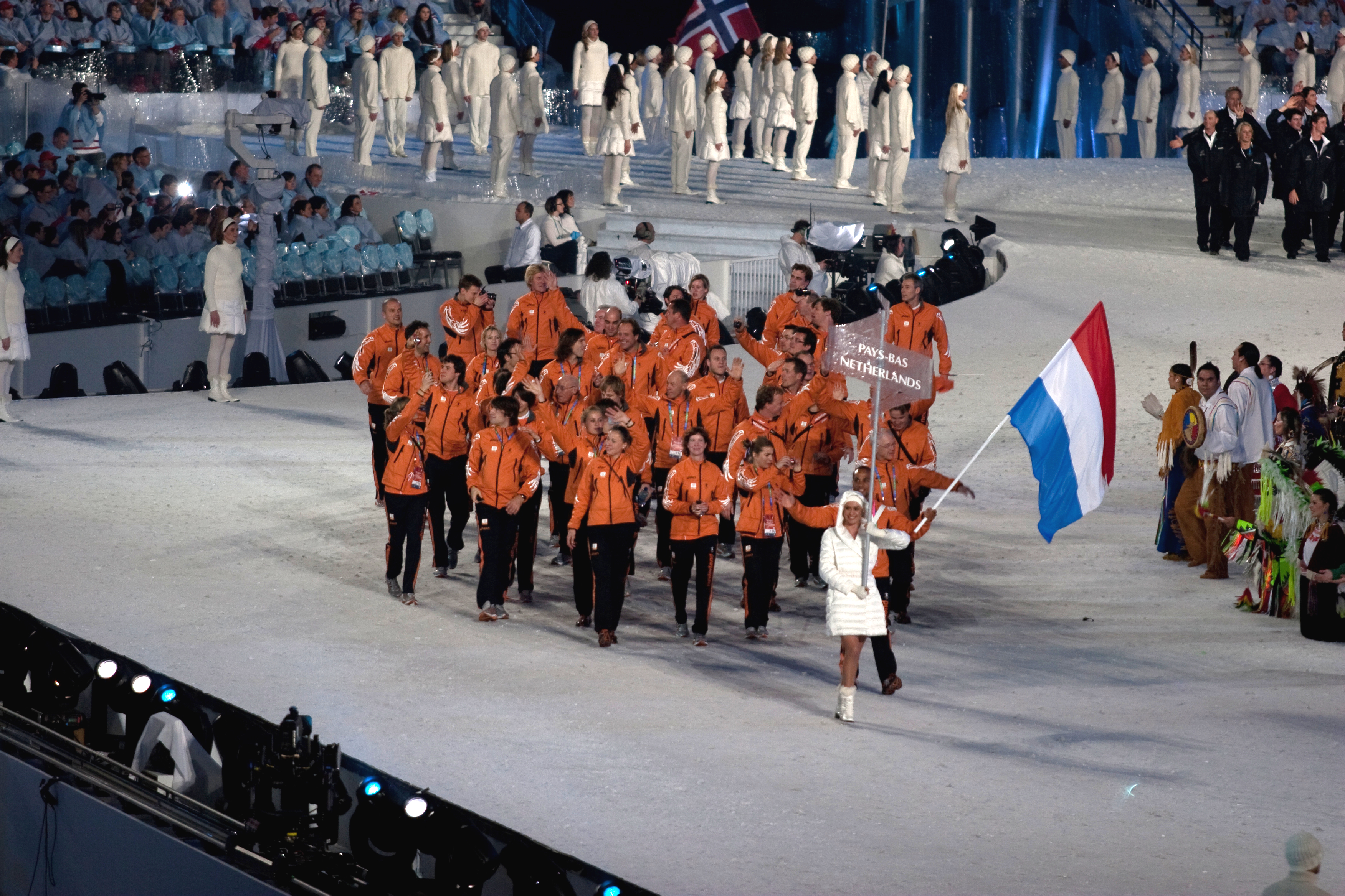 The athletes from the Netherlands entering the stadium at the opening ceremonies of the 2010 Winter Olympics